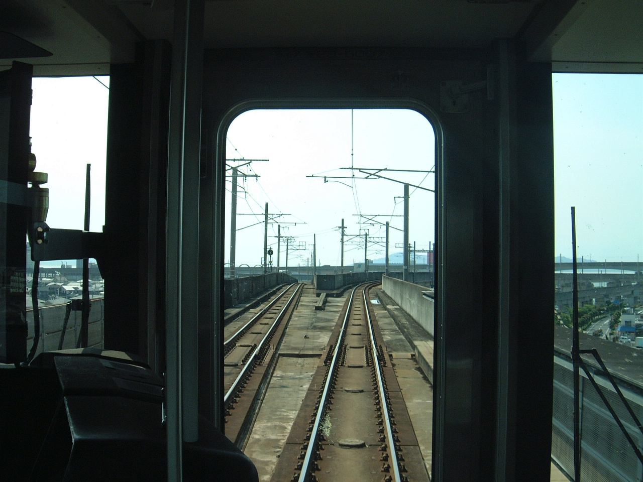 Honshi Bisan Line triangular junction viewed from the inside a train